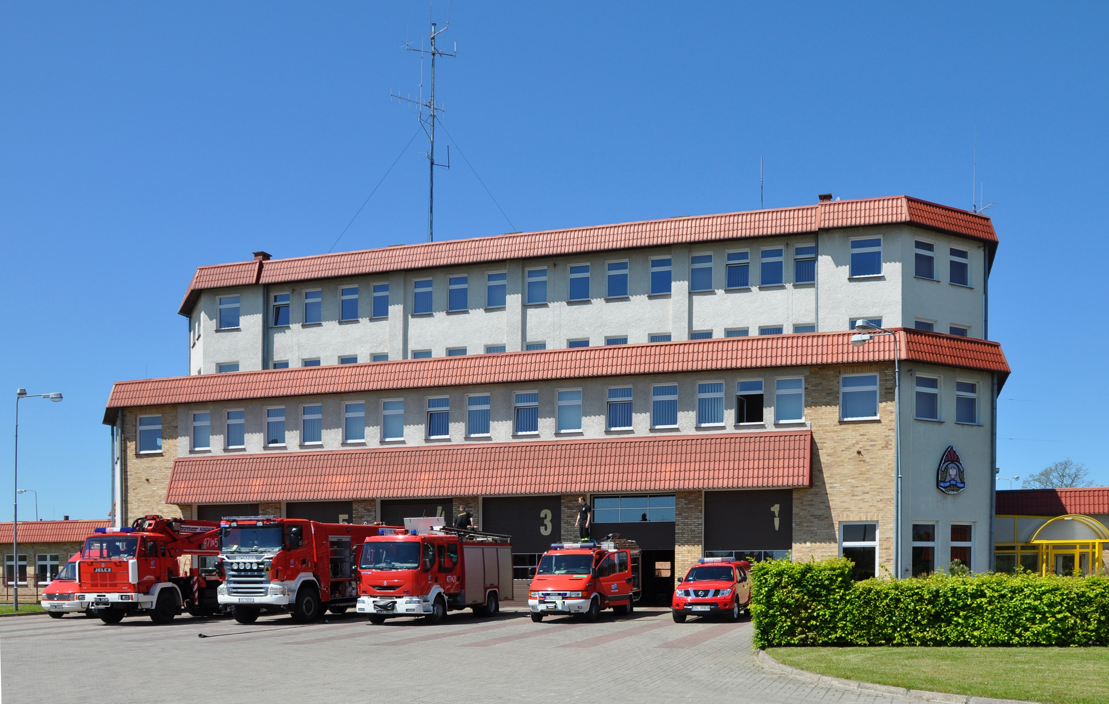 Fire station in Kołobrzeg, Poland